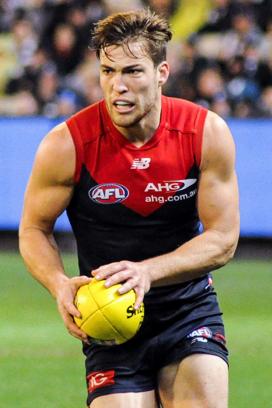 Jack Viney during the AFL round twelve match between Melbourne and Collingwood on 12 June 2017 at the Melbourne Cricket Ground in Melbourne, Victoria.